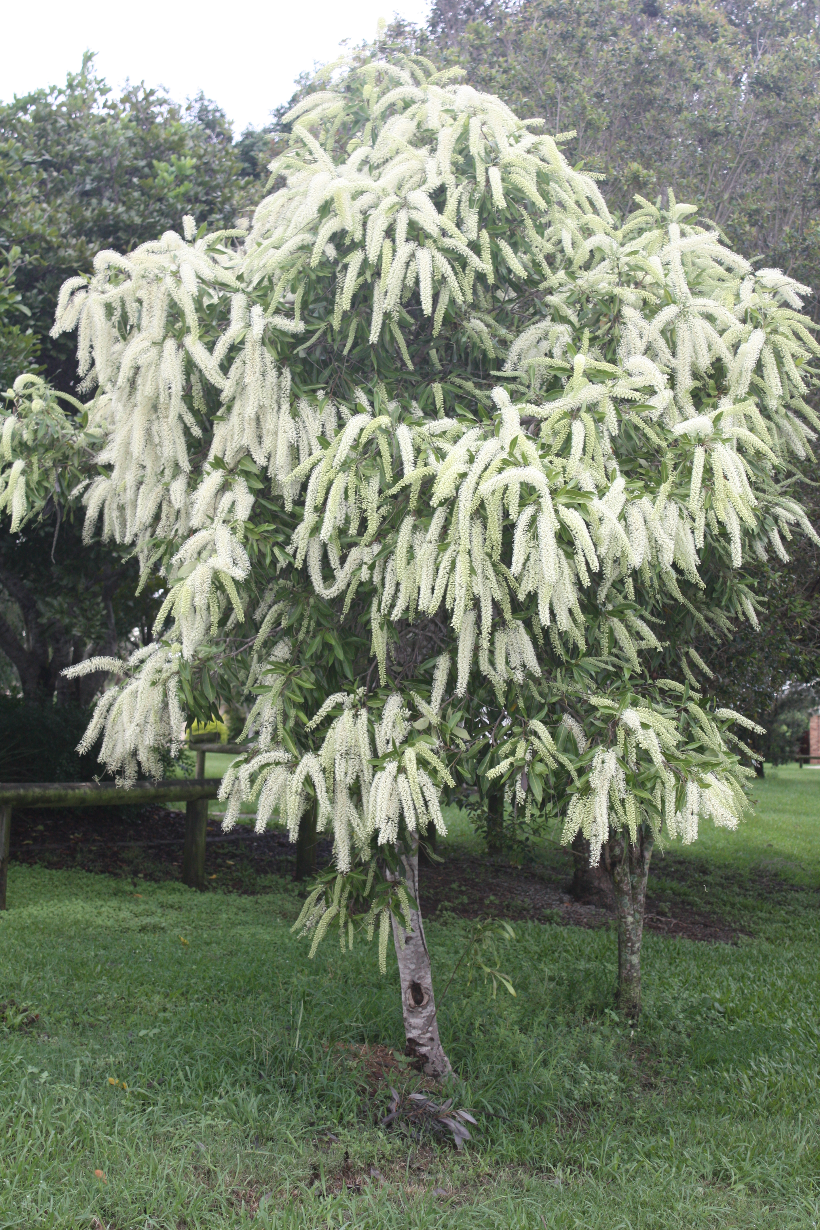 Family: Proteaceae